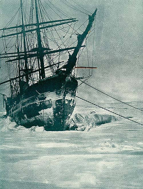 A Black, Giant Skeleton Marooned in the Icy Waste of Teplitz Bay; Photograph by moonlight, January 2, 1904--1 1/2 hours' exposure